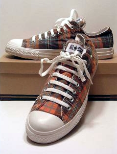 Junya Watenabe designed Converse All-Stars. Designed in 2007.